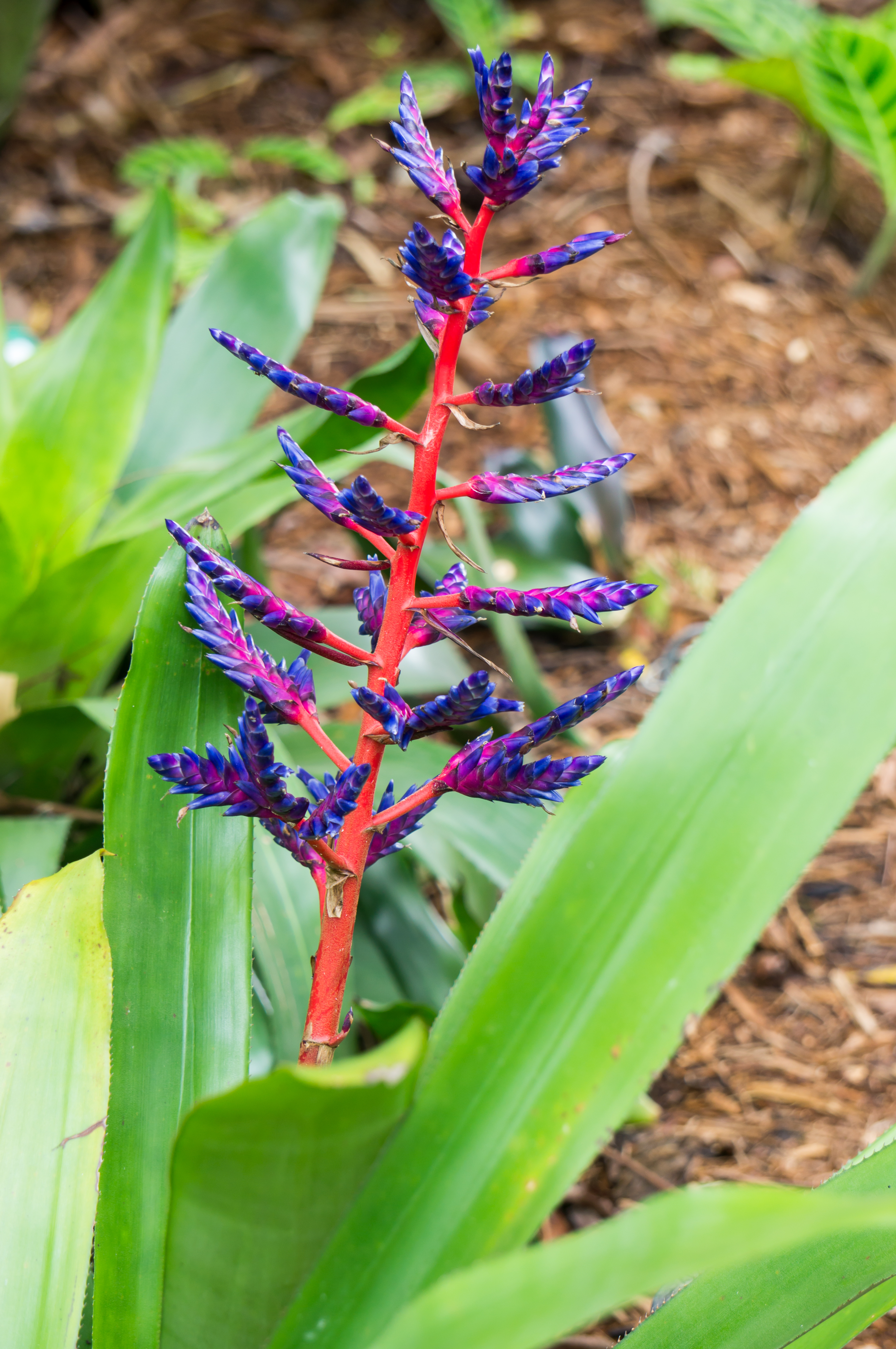 Flower of the Aechmea 'Blue Tango'. Photo taken in April at the Naples Botanical Garden in Naples, Florida.